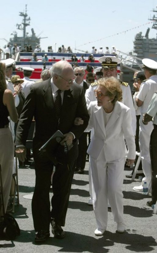 Vice President Dick Cheney talks with former First Lady Nancy Reagan after the commissioning ceremony for the USS Ronald Reagan in Norfolk, Va., July 12, 2003. "As we think this afternoon of our 40th President, we think also of the devoted wife at his side," Vice President Cheney said during the ceremony. "Mrs. Reagan, our nation is so grateful to you. You've shared in your husband's great life. And today, you share in the pride of this tribute from the people of the United States of America.